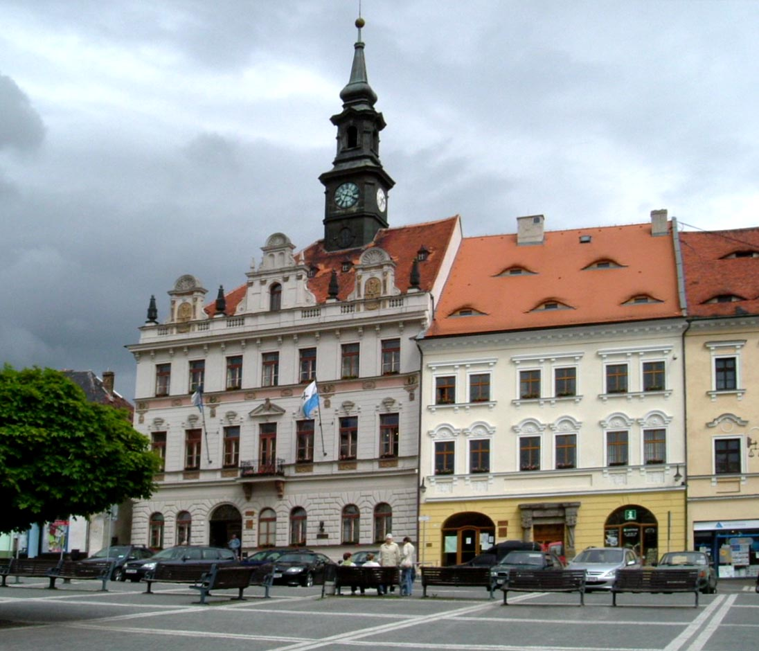 Ceska_Lipa_Town_Hall